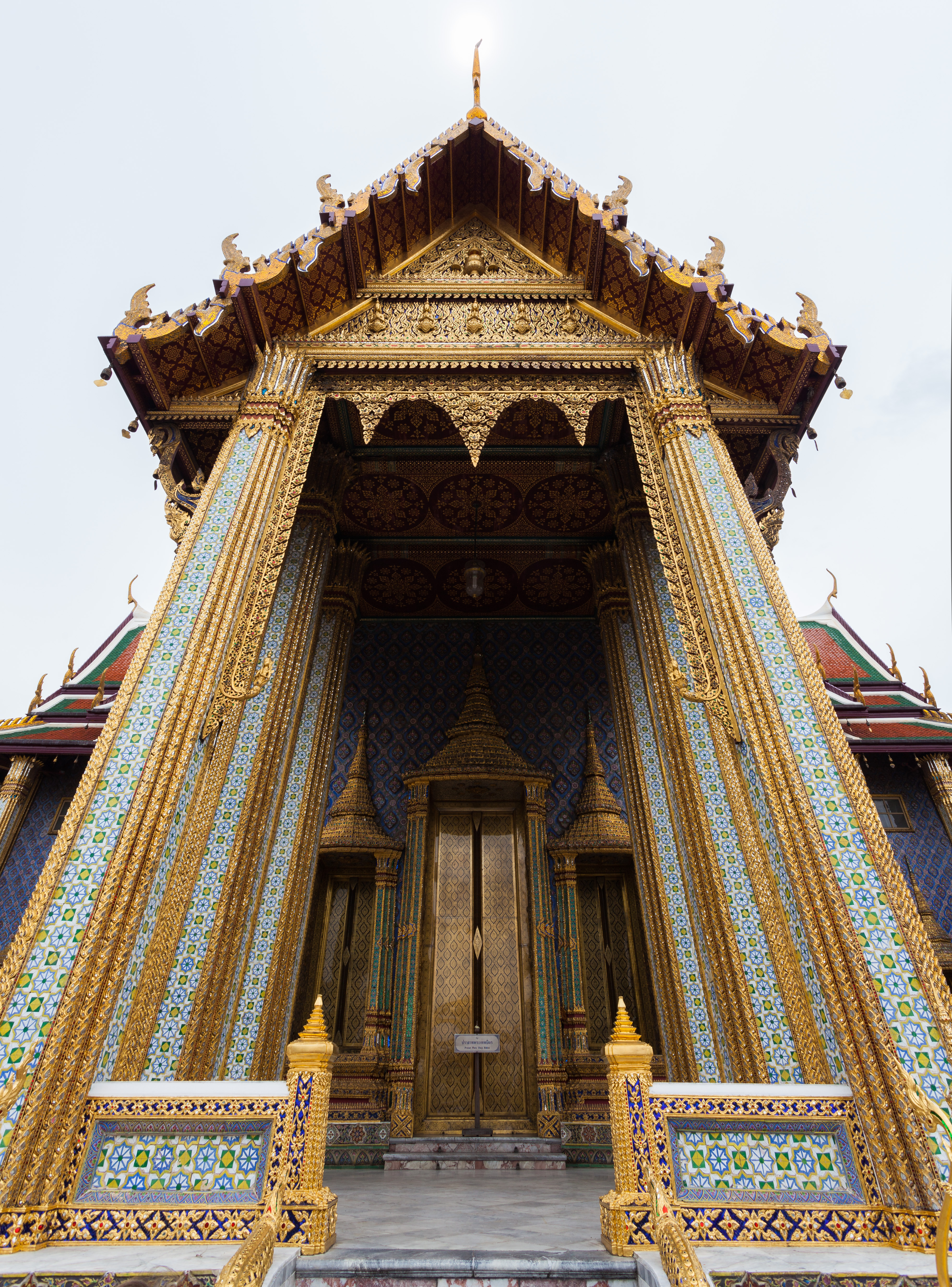 Grand Palace, Bangkok, Thailand